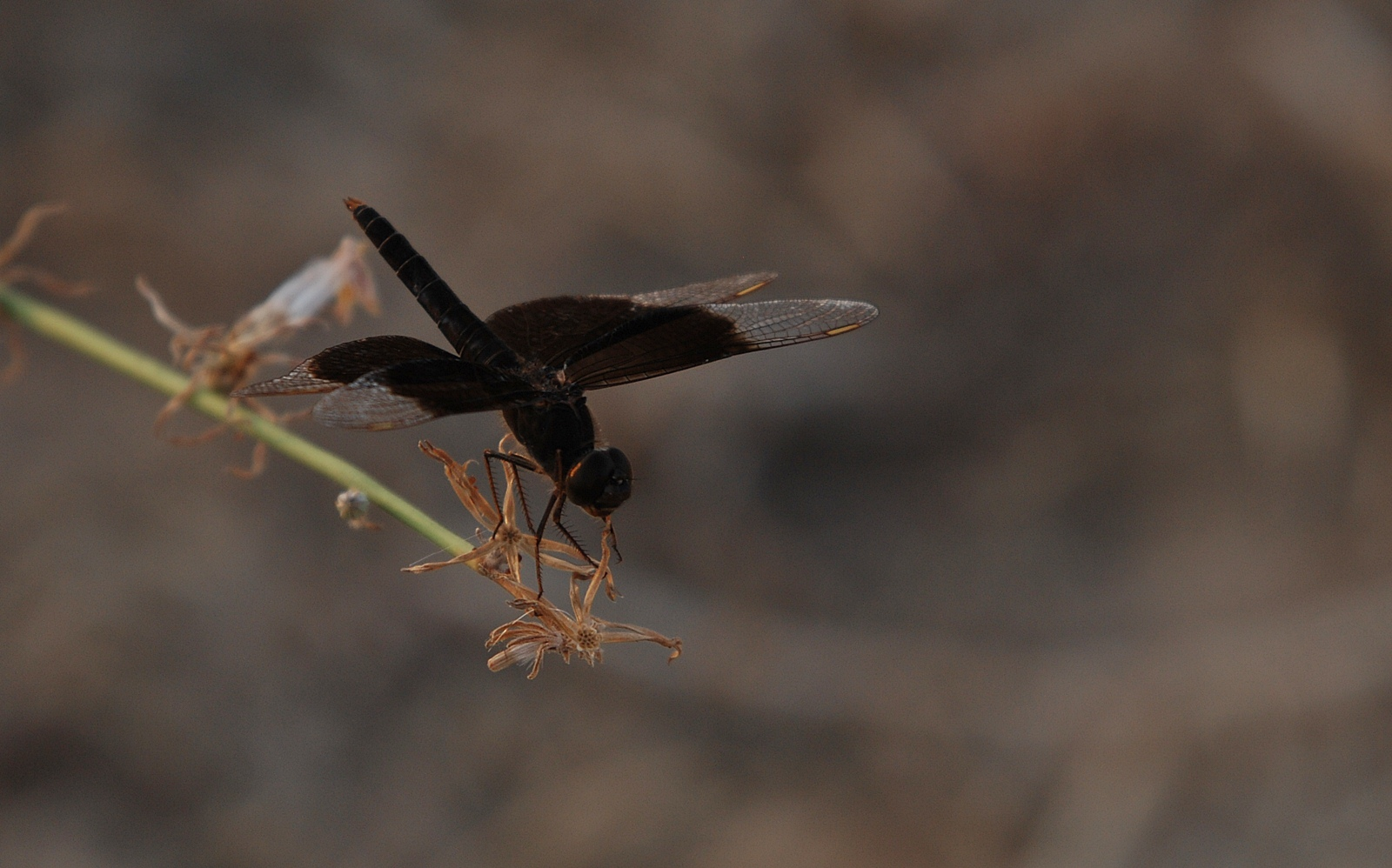 Dark-winged Groundling(male) Kurdî: Li Gundê Qerebaş hatiye kişandin.